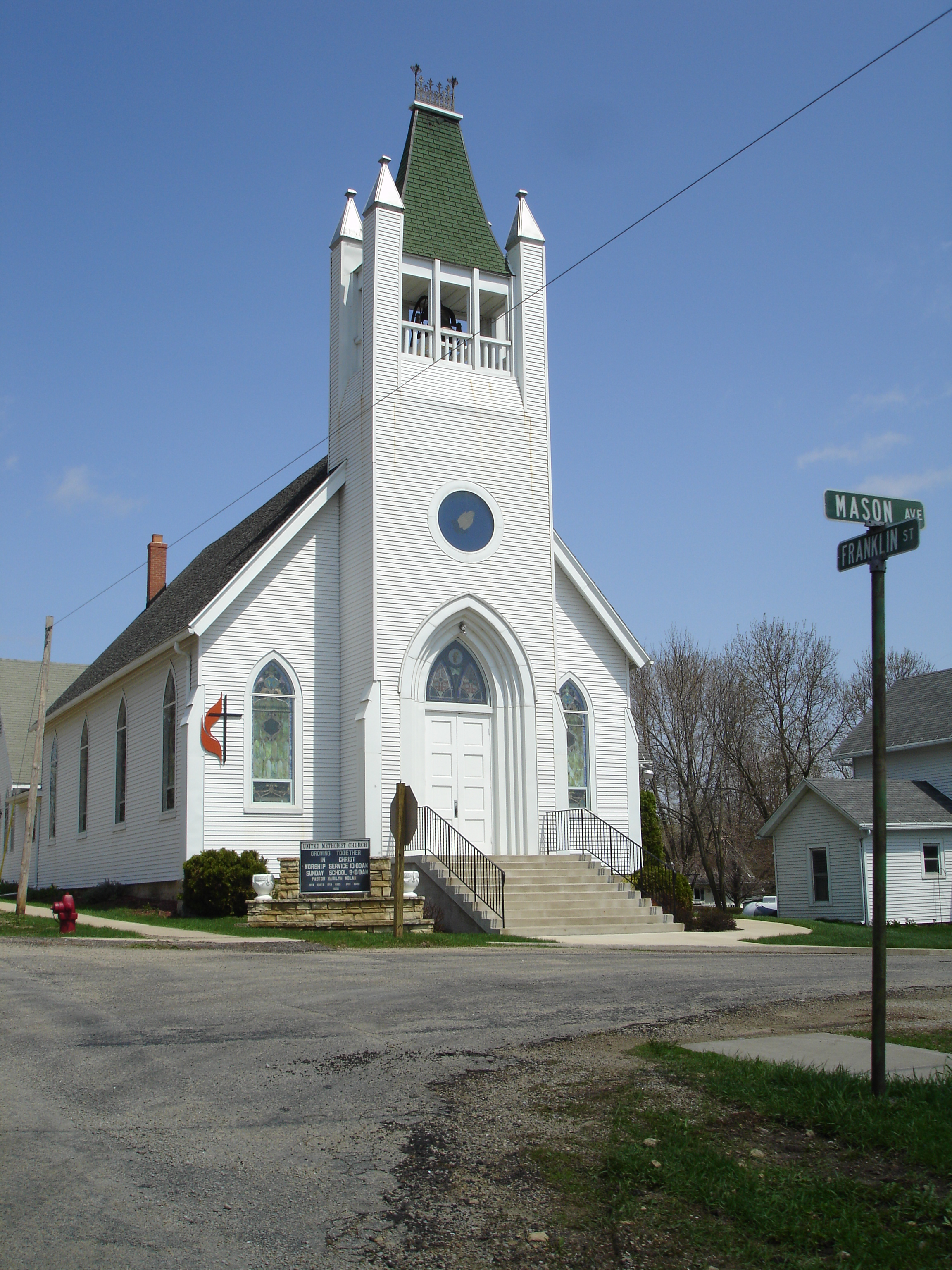 United Methodist Church, a part of the Scales Mound Historic District in Scales Mound, Illinois. Listed on the U.S. National Register of Historic Places.